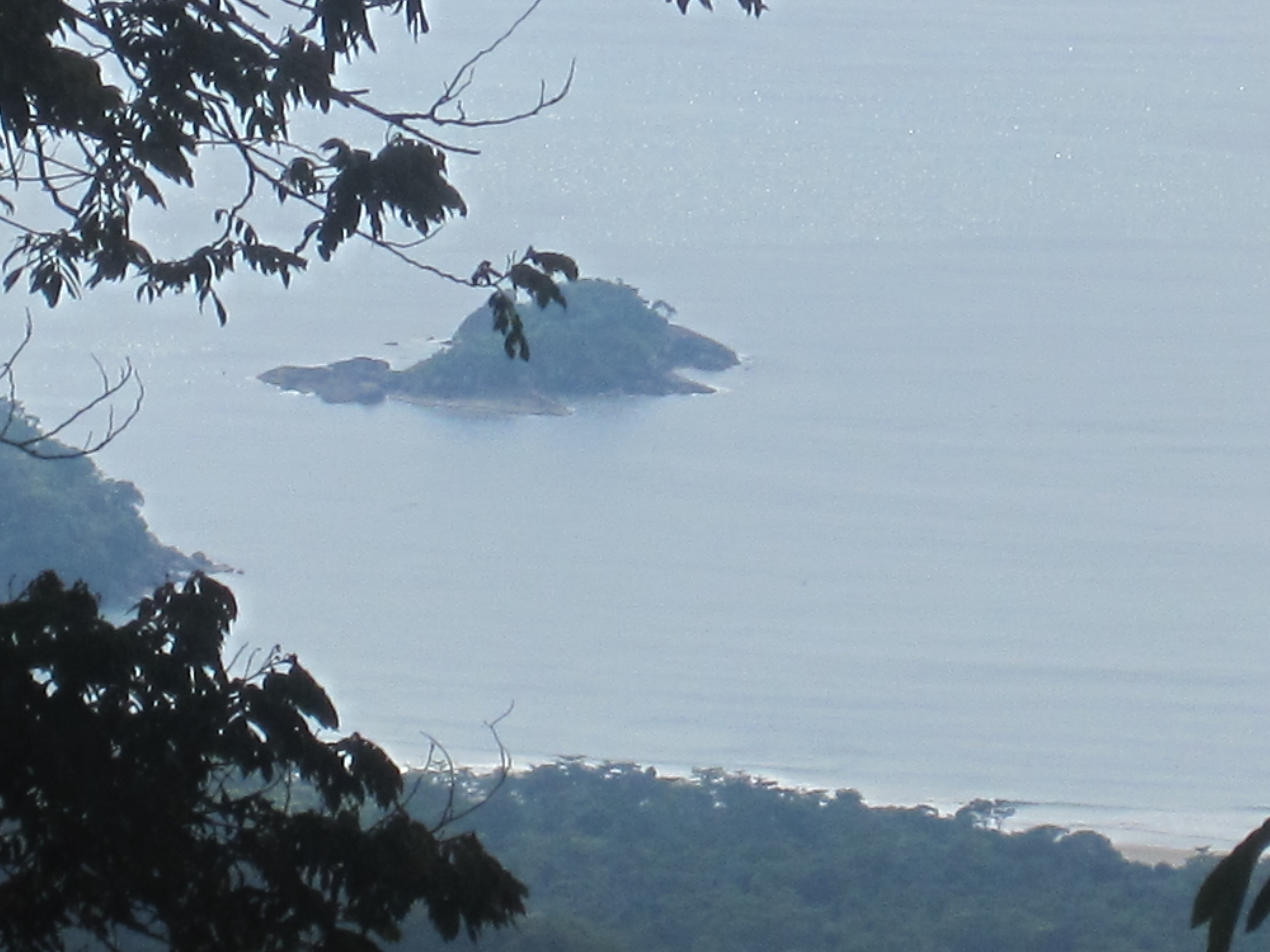 A view of the Castelhanos Bay at Ilhabela, São Paulo, Brazil. The Island of Castelhanos can be seen, as well as a small portion of its homonymous beach on the lower right edge.